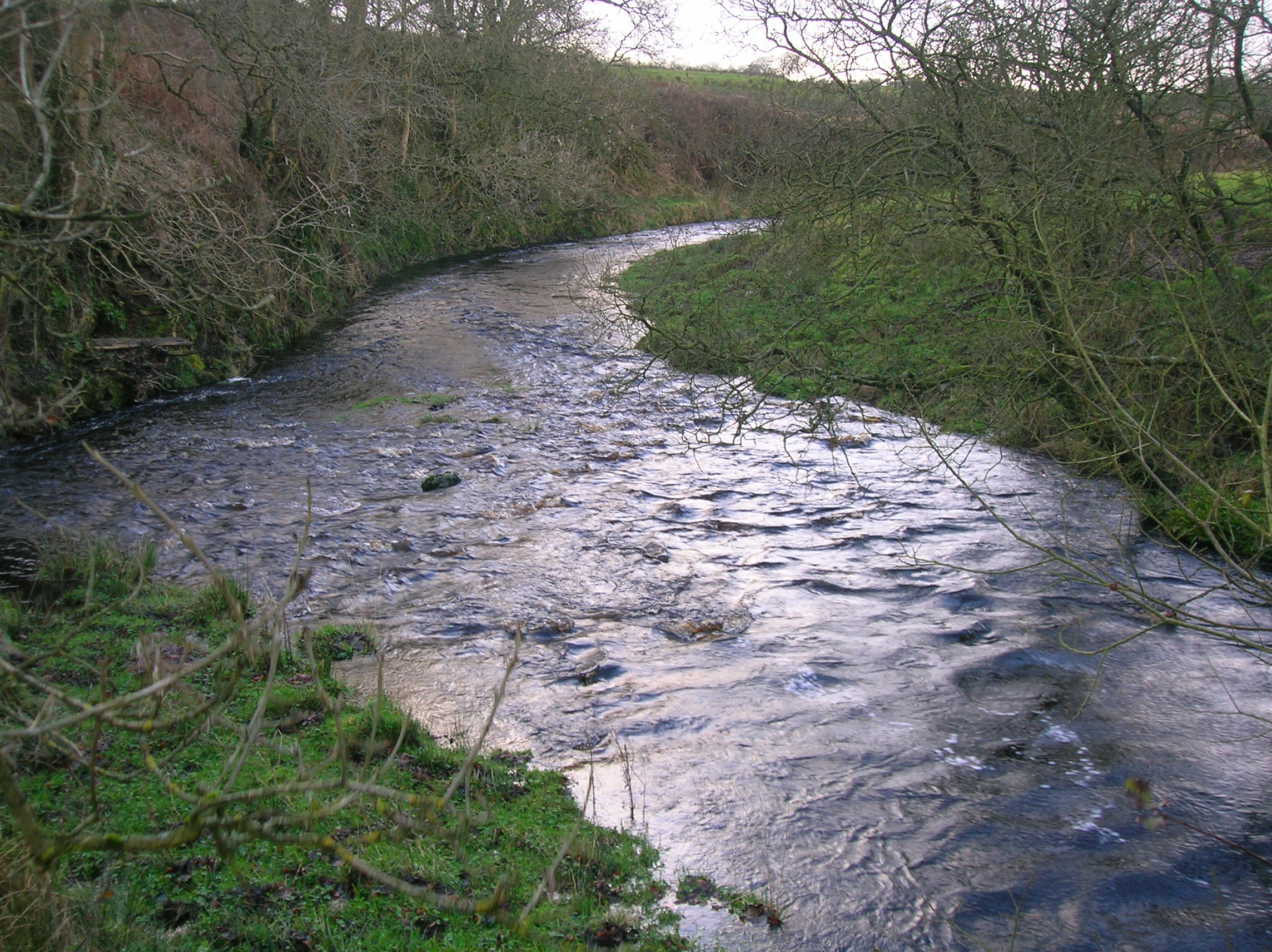 Hareshawmuir Water near Waterside in East Ayrshire, Scotland. By Roger Griffith. 24-11-07.